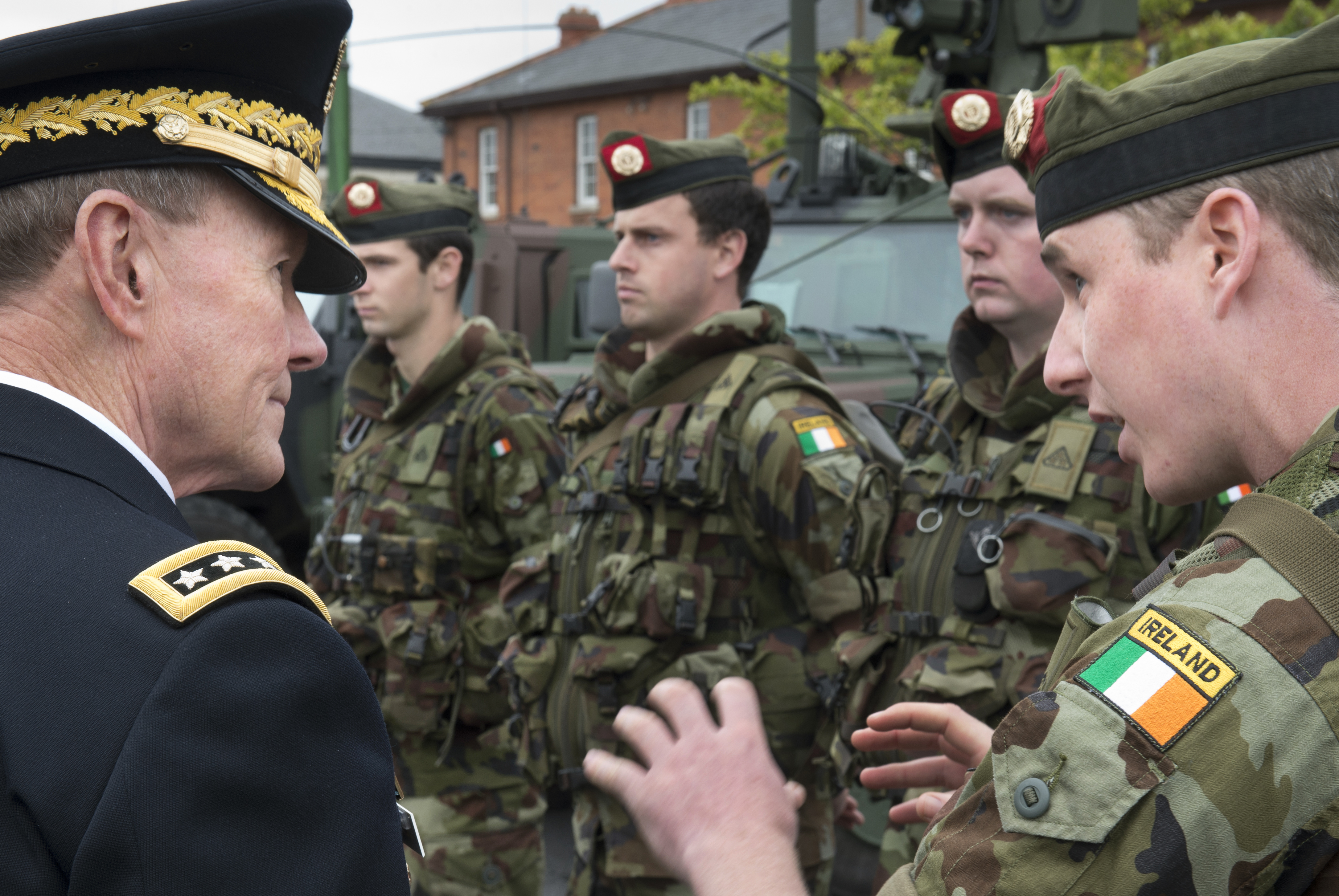 U.S. Army Gen. Martin E. Dempsey, chairman of the Joint Chiefs of Staff, receives a briefing from members of the Irish Defense Forces at Brugha Barracks in Dublin, Aug. 31, 2012.